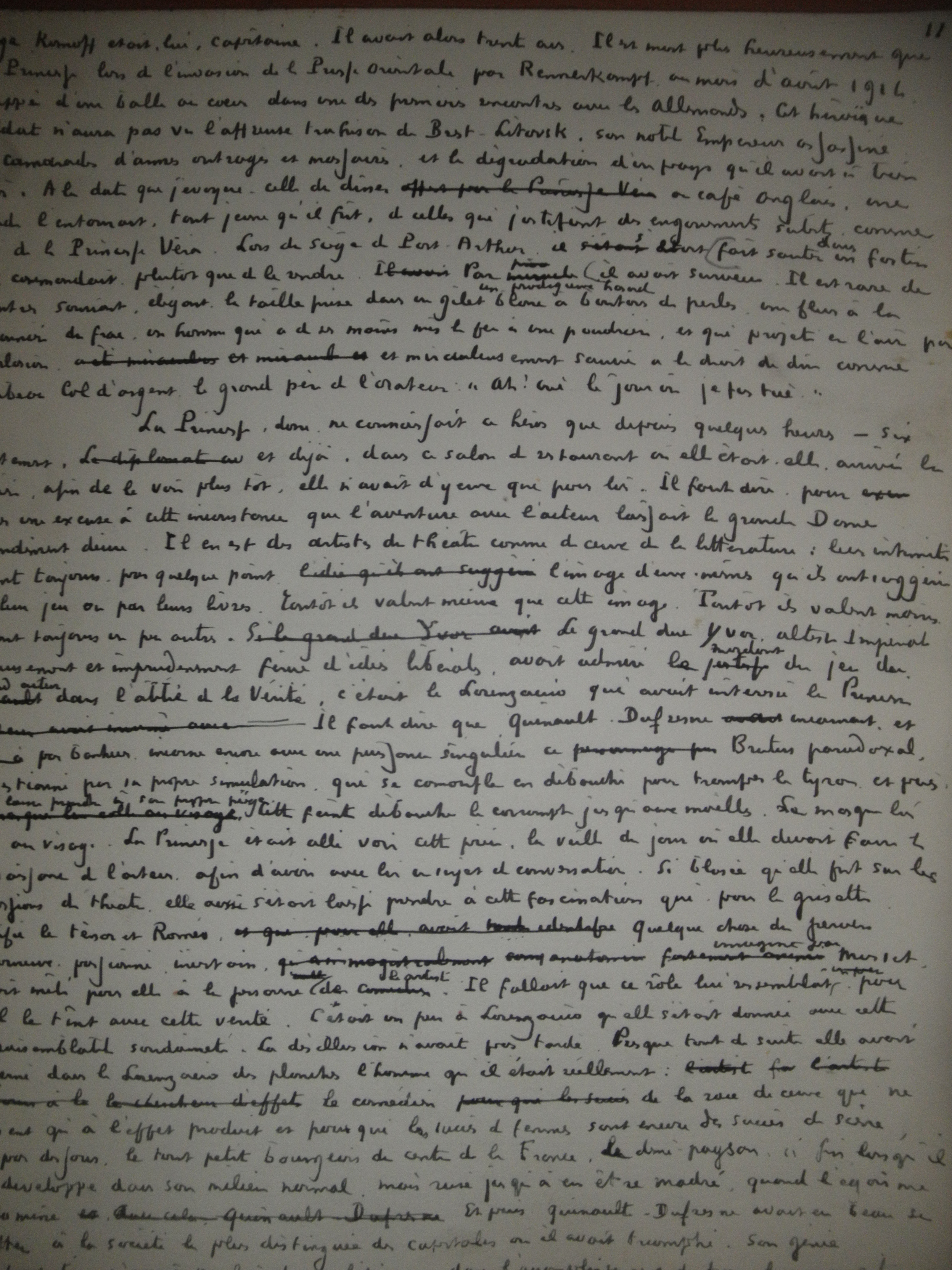 beau role